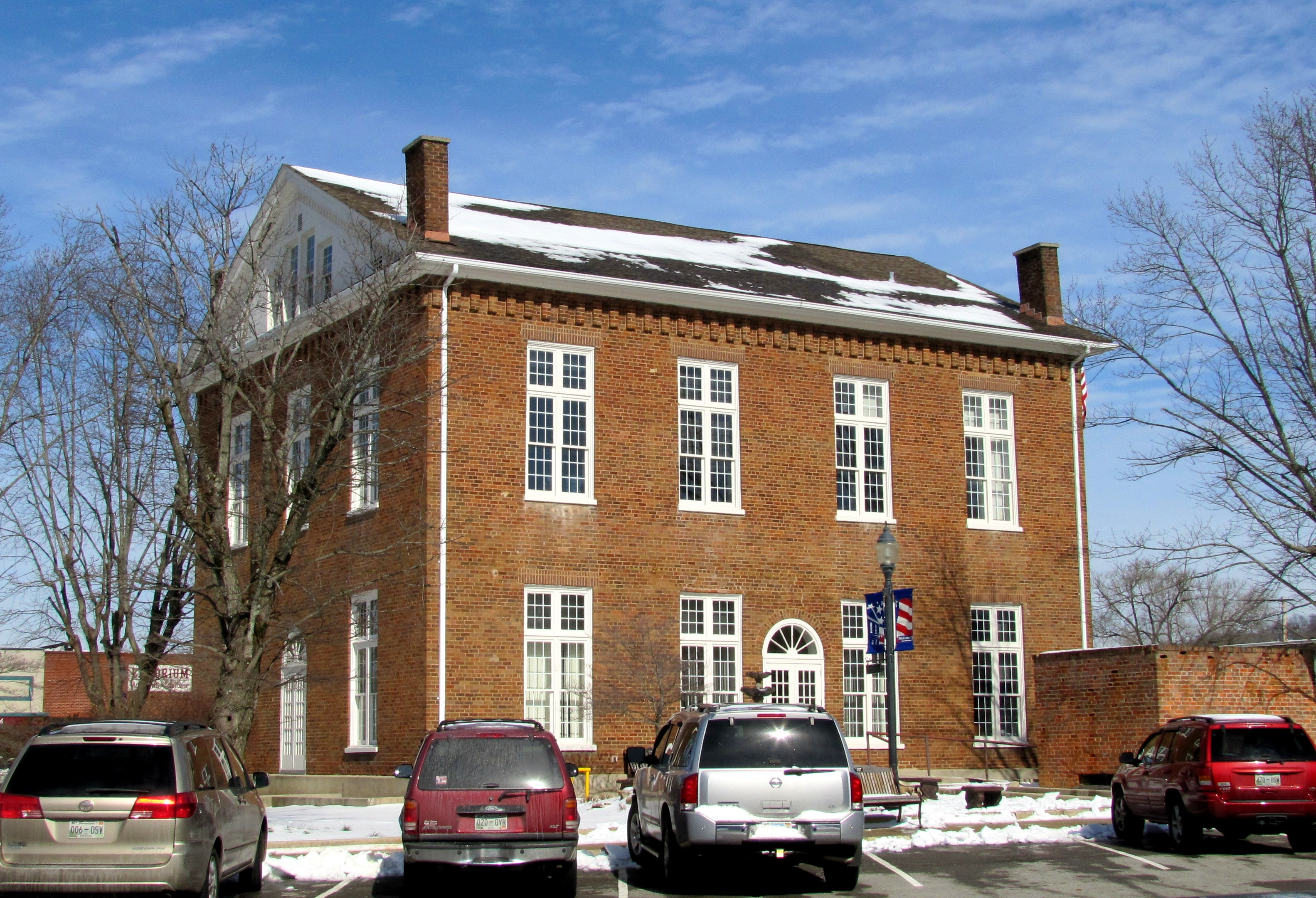 Overton County Courthouse in Livingston, Tennessee, USA, viewed from Main Street.